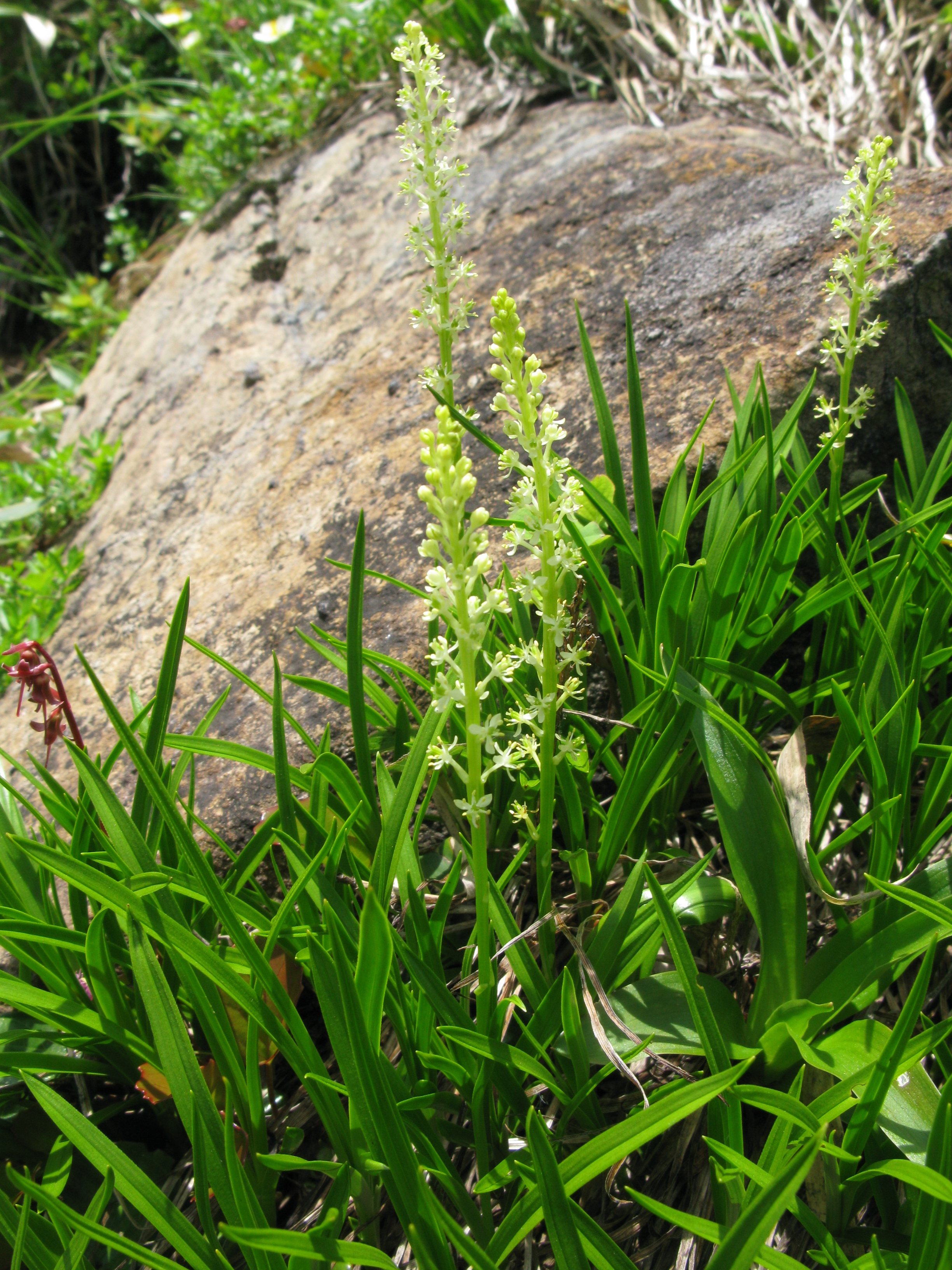 Japonolirion osense, Mount Shibutsu, Gunma pref., Japan